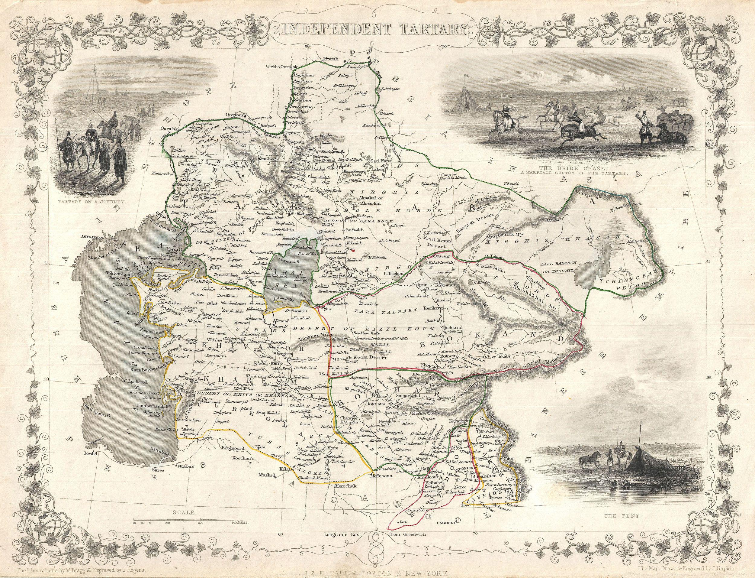 A highly decorative 1851 map of Independent Tartary by John Tallis and John Rapkin. Covers the regions between the Caspian Sea and Lake Bakquash and between Russia and Afghanistan. These include the ancient Silk Route kingdoms of Khiva, Tartaria, Kokand, and Bokhara. Today this region roughly includes Kazakhstan, Uzbekistan, Turkmenistan, Kyrgyzstan, and Tajikistan. This wonderful map offers a wealth of detail for anyone with an interest in the Central Asian portion of the ancient Silk Road. Identifies various caravan routes, deserts, wells, and stopping points, including the cities of Bokhara and Samarkand. Three vignettes by W. Bragg decorate the map, these including an image of Tartars on a Journey, a horseback Bride Chase, and a tartar camp site. Surrounded by a vine motif border. Engraved by J. Rapkin for John Tallis's 1851 Illustrated Atlas .